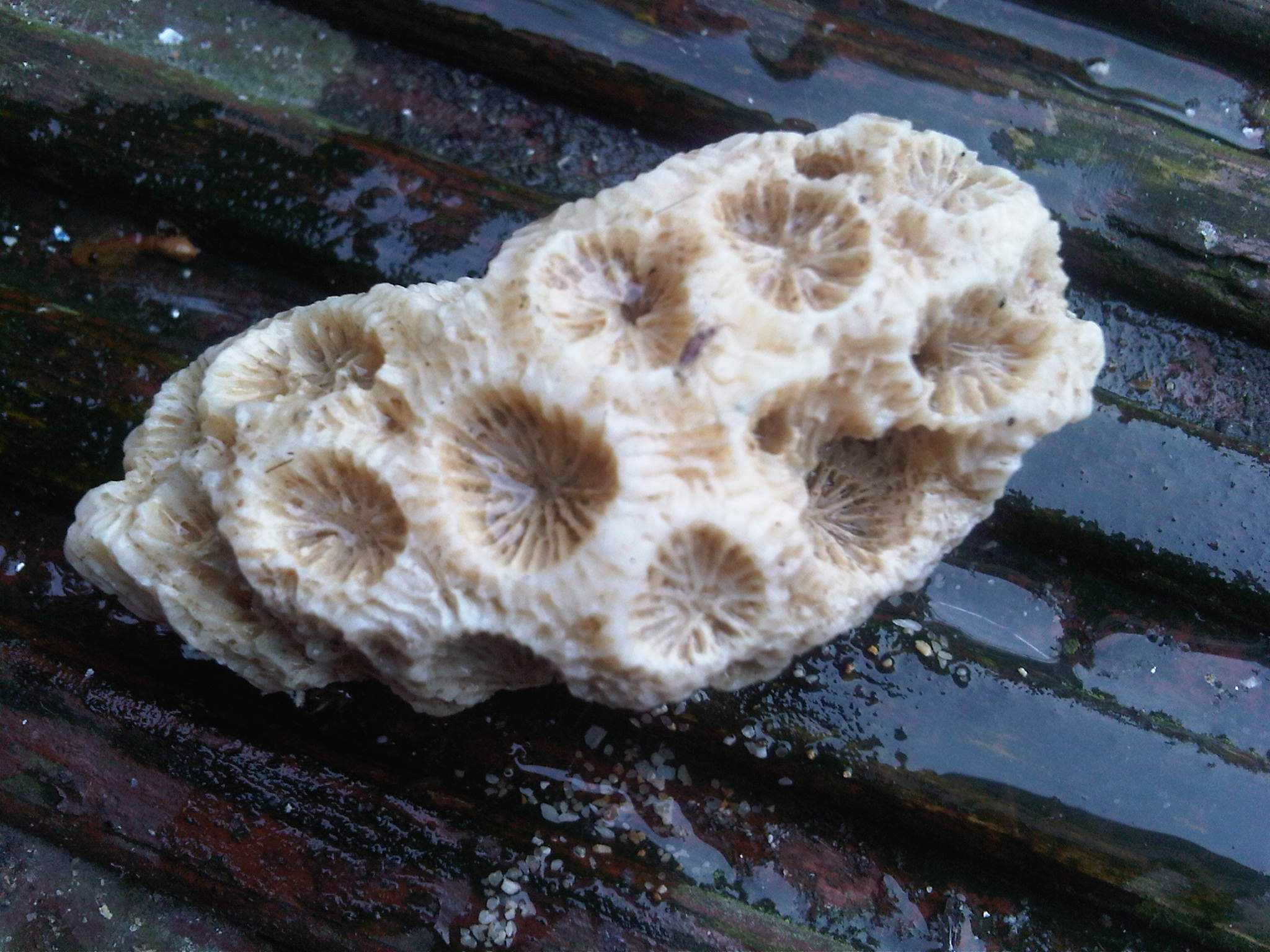 Dead Turbinaria peltata. In a private collection from Thailand.